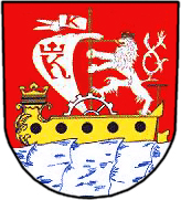 Historical coat of arms of Karlín